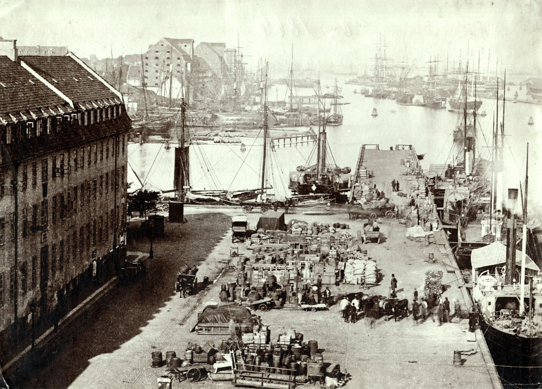 Kvæsthusbroen in Copenhagen, Denmark